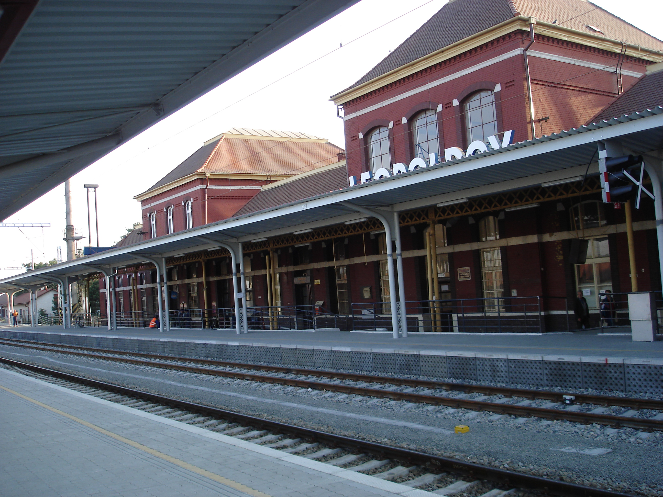 Train station in Leopoldov. Close to Hlohovec in Slovakia